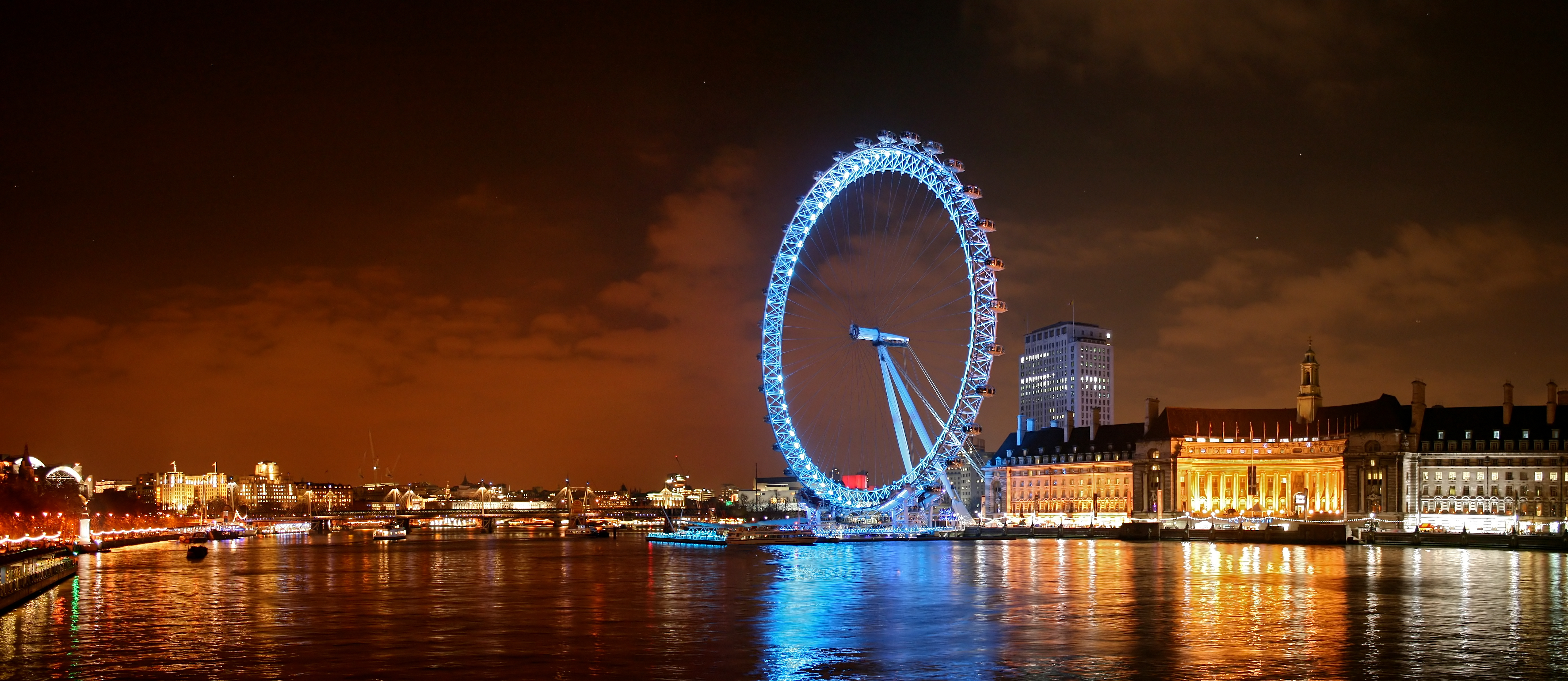 The London Eye in London, England. I believe that the bright dot in the sky is the planet Mars. Edits made to original image: adjustment of highlight levels (also present in the other version) and noise filtered with Neat Image and added another of the author's images to create a panorama. (by Lycaon)